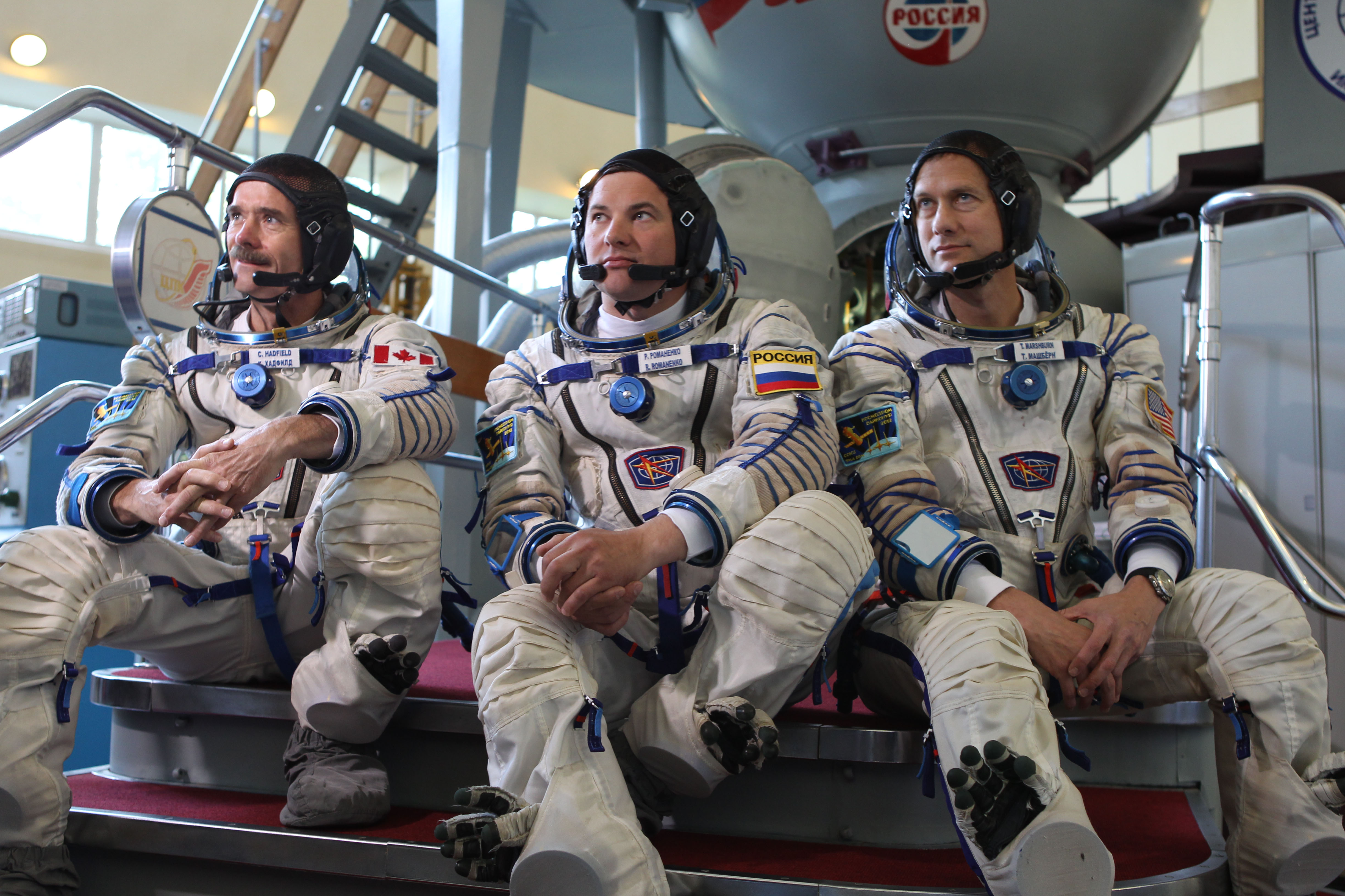 Expedition 32/33 backup crew members Chris Hadfield of the Canadian Space Agency (left), Soyuz Commander Roman Romanenko and Tom Marshburn of NASA (right) answer questions from the media at a Soyuz vehicle mock-up before their final qualification test June 19, 2012 at the Gagarin Cosmonaut Training Center in Star City, Russia. The prime crew, Expedition 32/33 Soyuz Commander Yuri Malenchenko and Flight Engineers Sunita Williams of NASA and Aki Hoshide of the Japan Aerospace Exploration Agency practiced similar scenarios nearby in advance of their final approval for launch to the International Space Station, scheduled for July 15 in their Soyuz TMA-05M spacecraft.